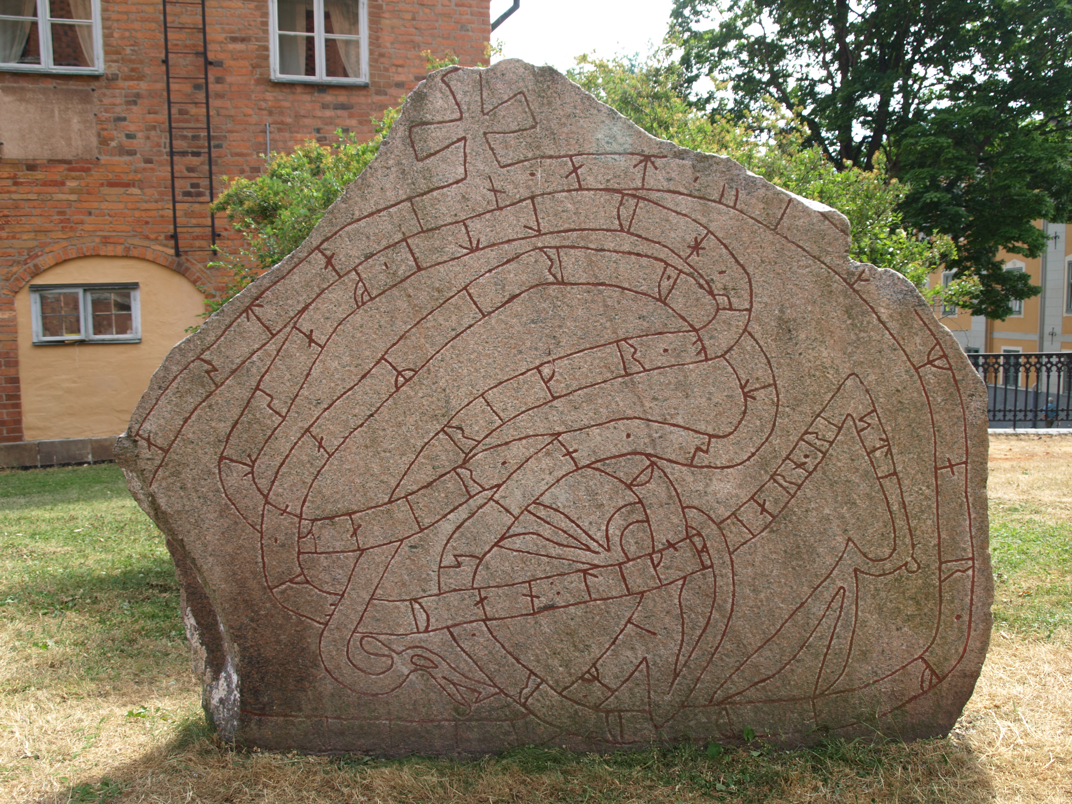 The runestone Upplands runinskrifter Fv1976;104, located outside Uppsala Cathedral